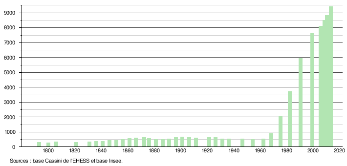 Saint-Gély-Du-Fesc demographic historgram